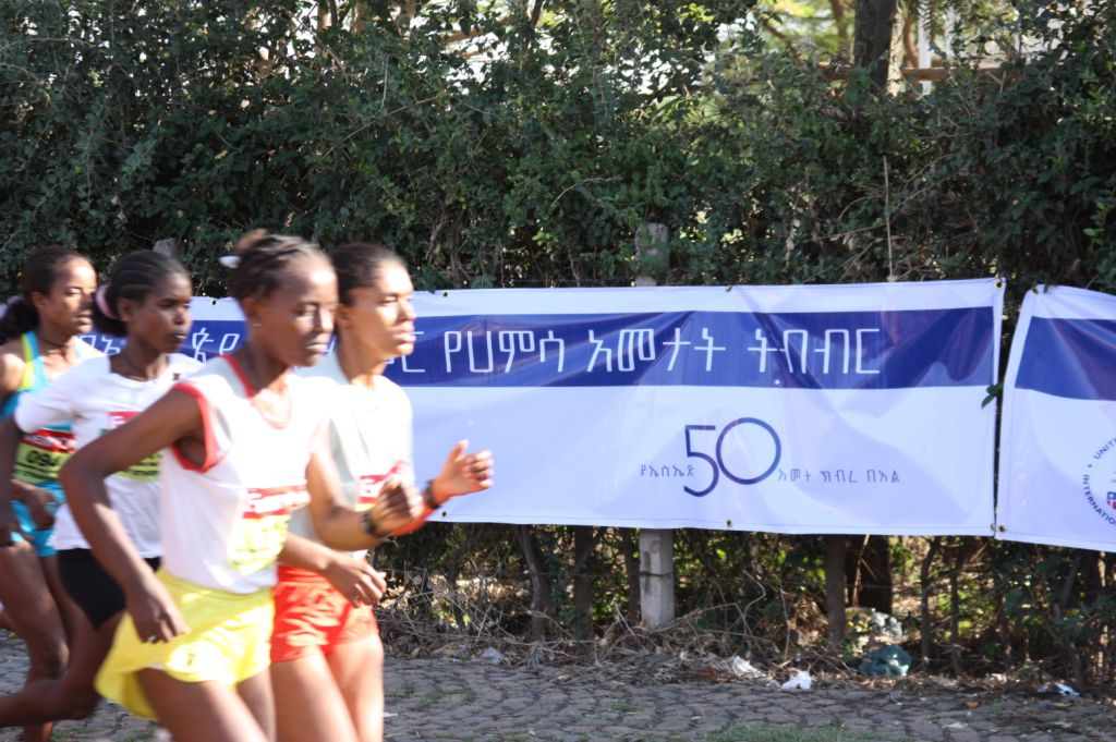 Runners at the EVERY ONE race in Ethiopia, co-sponsored by USAID, Save the Children, and Great Ethiopian Run to raise awareness about interventions to save maternal and newborn lives. Photo credit: Nena Terrell/USAID.